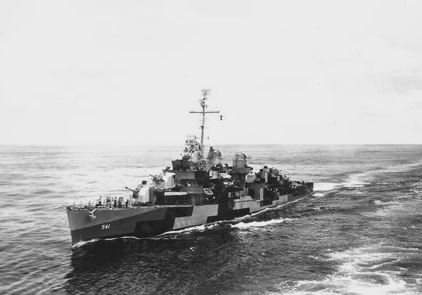 The U.S. Navy Fletcher-class destroyer USS Yarnall (DD-541) comes alongside the light aircraft carrier USS Independence (CVL-22) for refueling and underway replenishment. Yarnall is painted in Camouflage Measure 31, Design 2c.